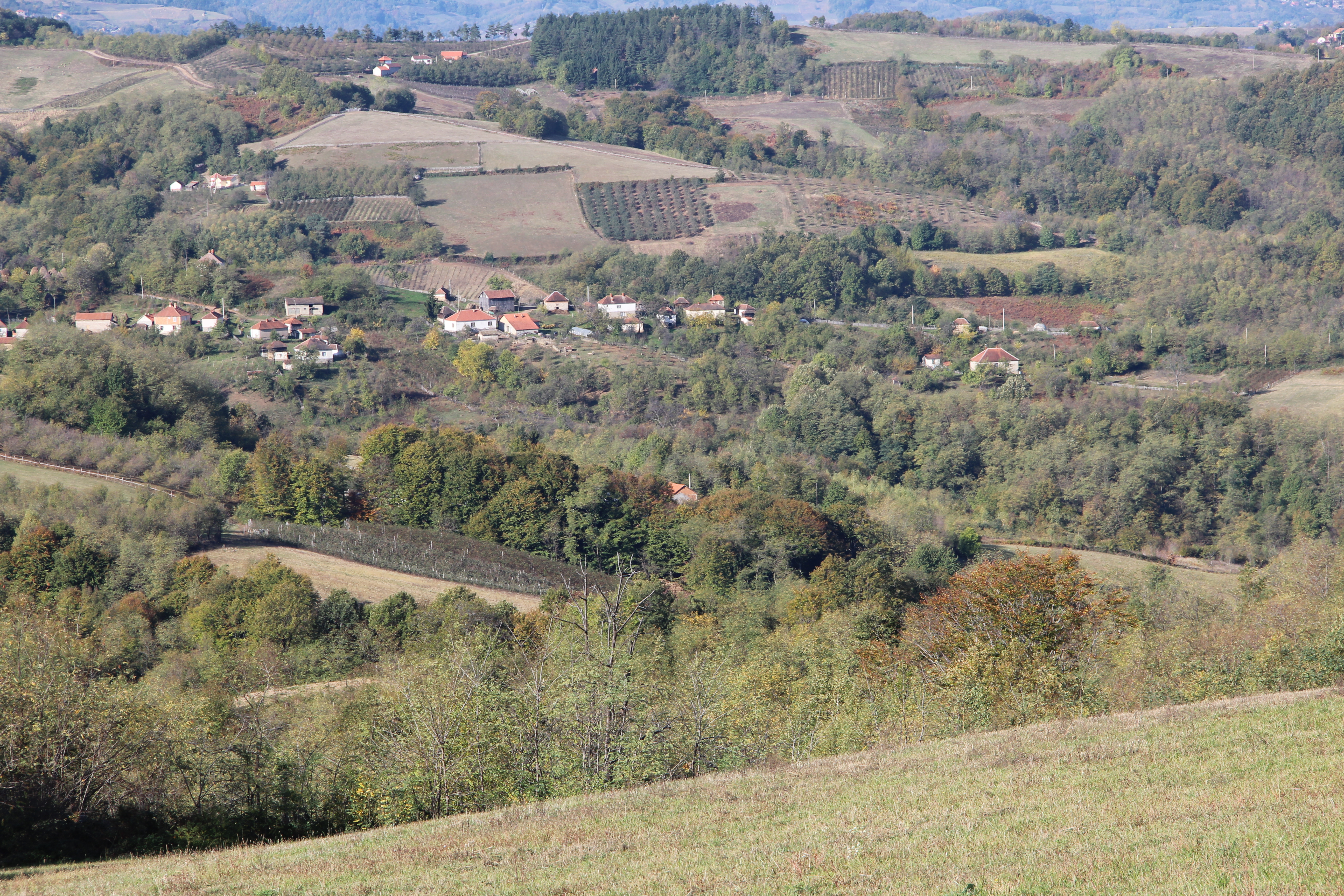 Lopatanj village - Municipality of Valjevo - Western Serbia - panorama 8